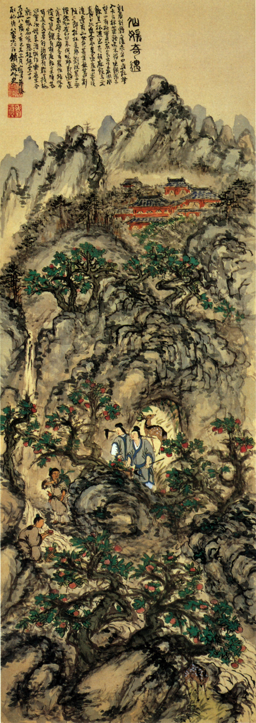 Tomioka Tessai Encountering with Immortal Women,colors on silk,a hanging scroll